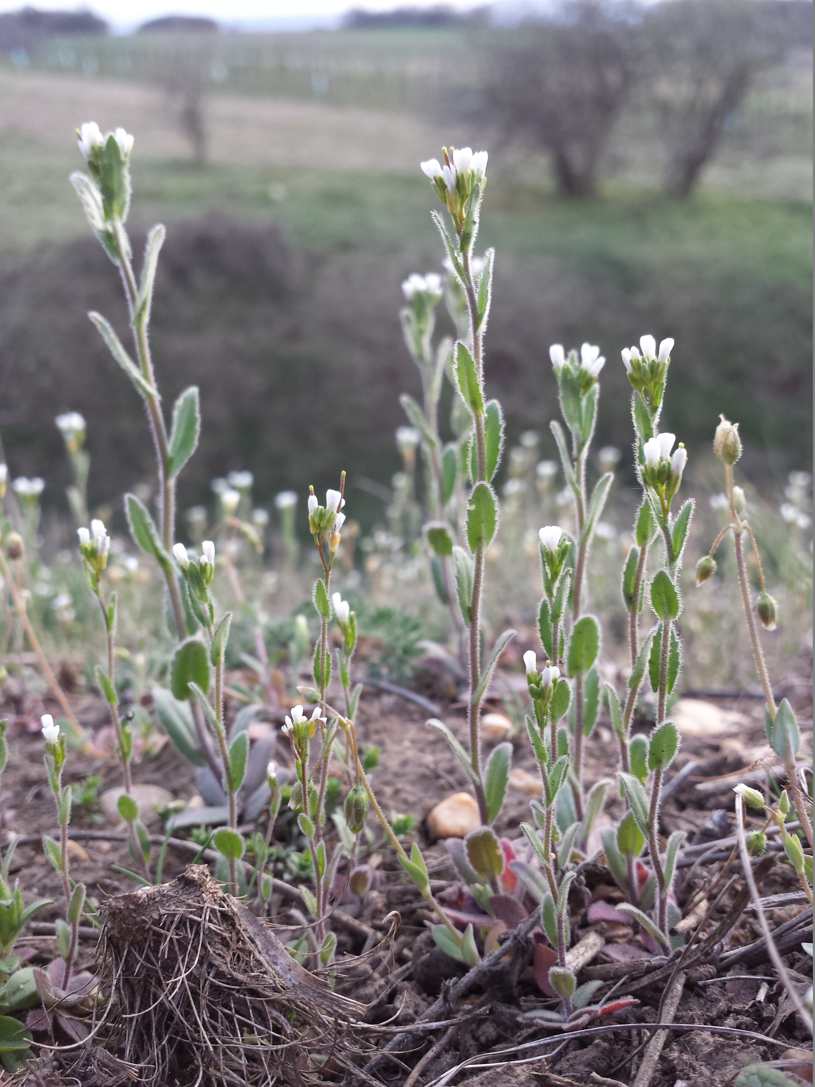 Habitus Taxon: Arabis auriculata (sensu Fischer et al. EfÖLS 2008 ISBN 978-3-85474-187-9) Location: object XII, Alte Schanzen, Vienna-Floridsdorf - ca. 225 m a.s.l. Habitat: dry grassland